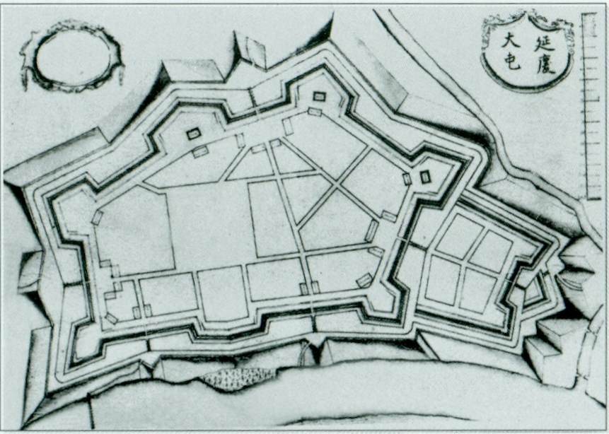 Old map of Dien Khanh citadel